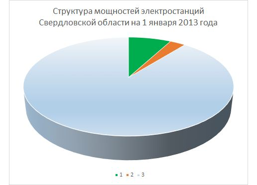 Электростанции Свердловской области